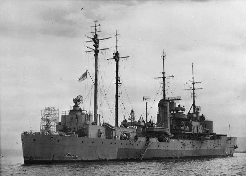 HMS BOXER at anchor. Built and first employed as a Landing Ship, Tank. From 1944 as a Fighter Direction Ship.